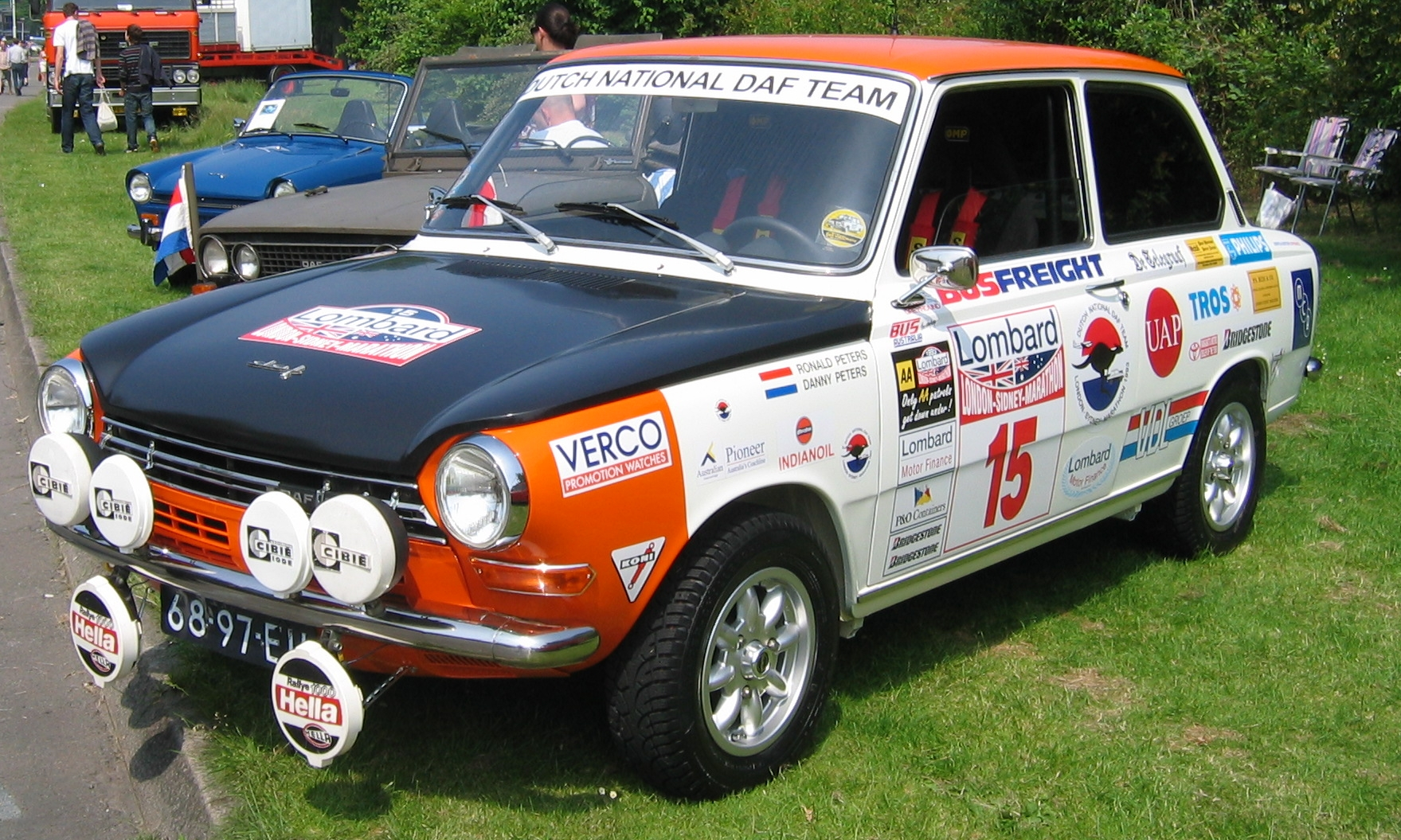 A DAF 55 at the DAF exposition during the Eindhoven Pole Position weekend.